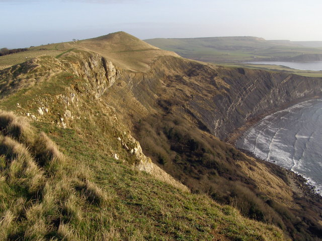 View from Gad Cliff towards Tyneham Cap Looking east from the top of Gad Cliff towards Tyneham Cap - the prominence left of centre. To the right is Brandy Bay, and beyond Kimmeridge Bay. The rock succession through the cliffs, starting at the bottom, is: Kimmeridge Clay, Portland Sand then Portland Stone. The undercliff is inaccessible to the public as it is part of the Lulworth Ranges "danger area".